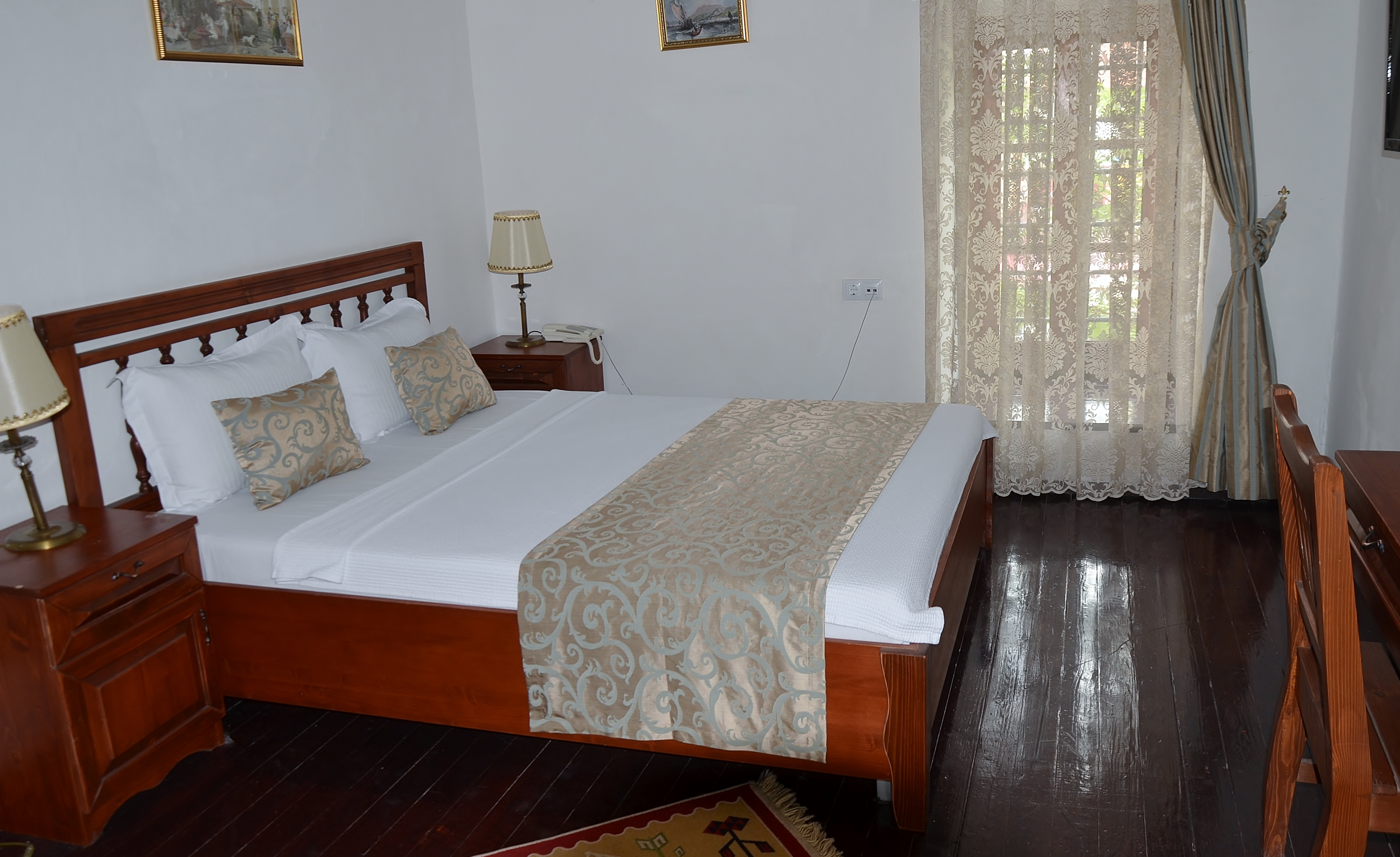 Hotel Kervansaray inside Öküz Mehmed Pasha Caravanserai, Kuşadası, Aydın